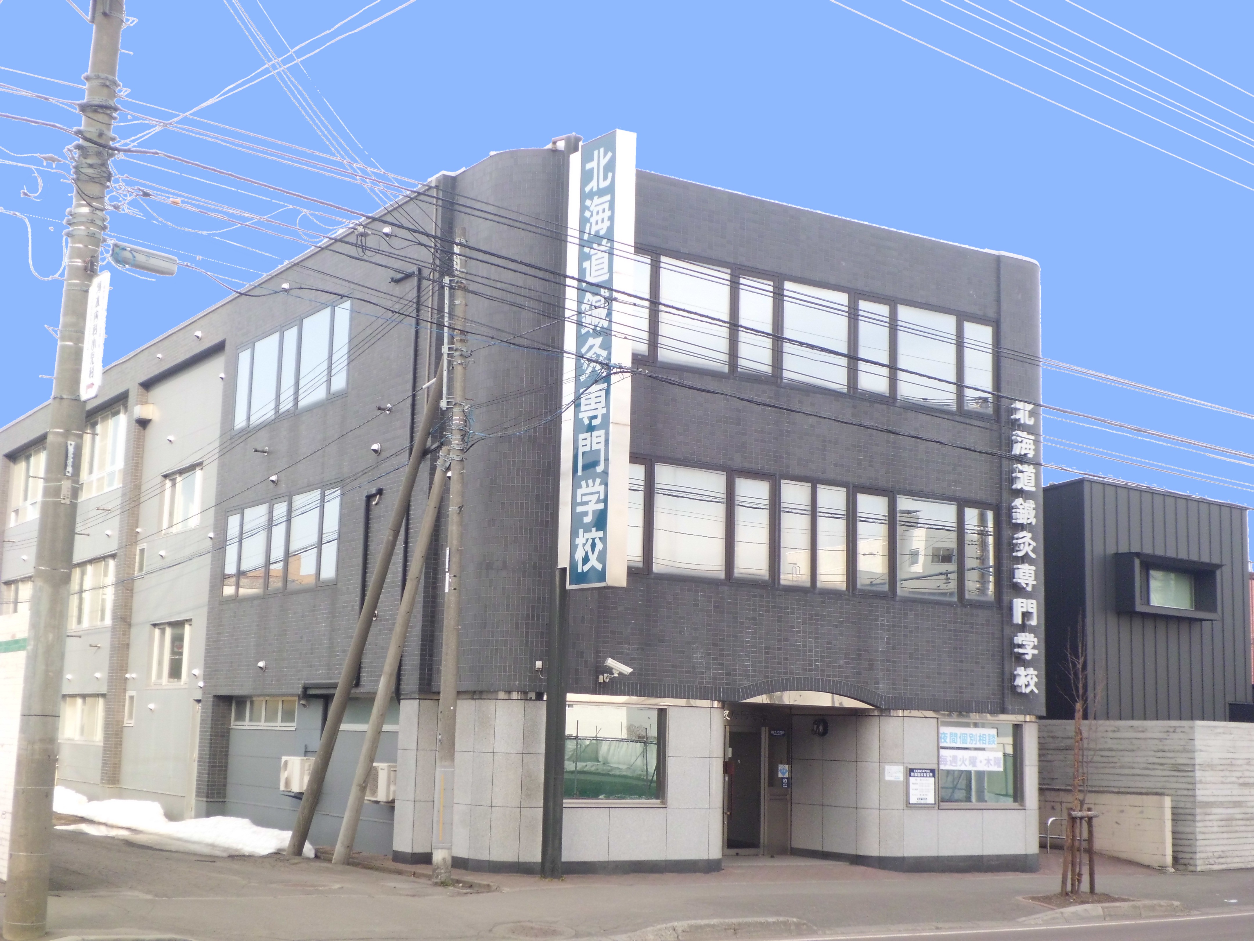 Hokkaido College of Acupuncture